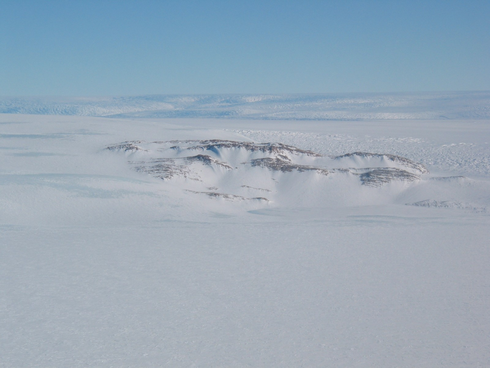 Hughes Bluff, on south side of David Glacier, Antarctica, viewed from the south-east